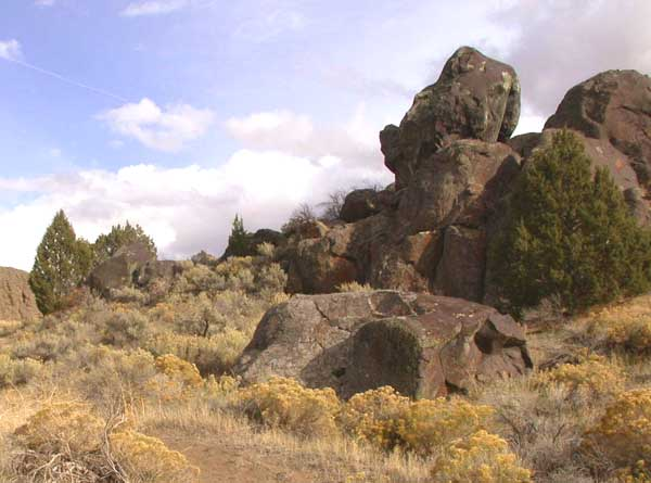 Boulders in Massacre Rocks State Park in southern Idaho.